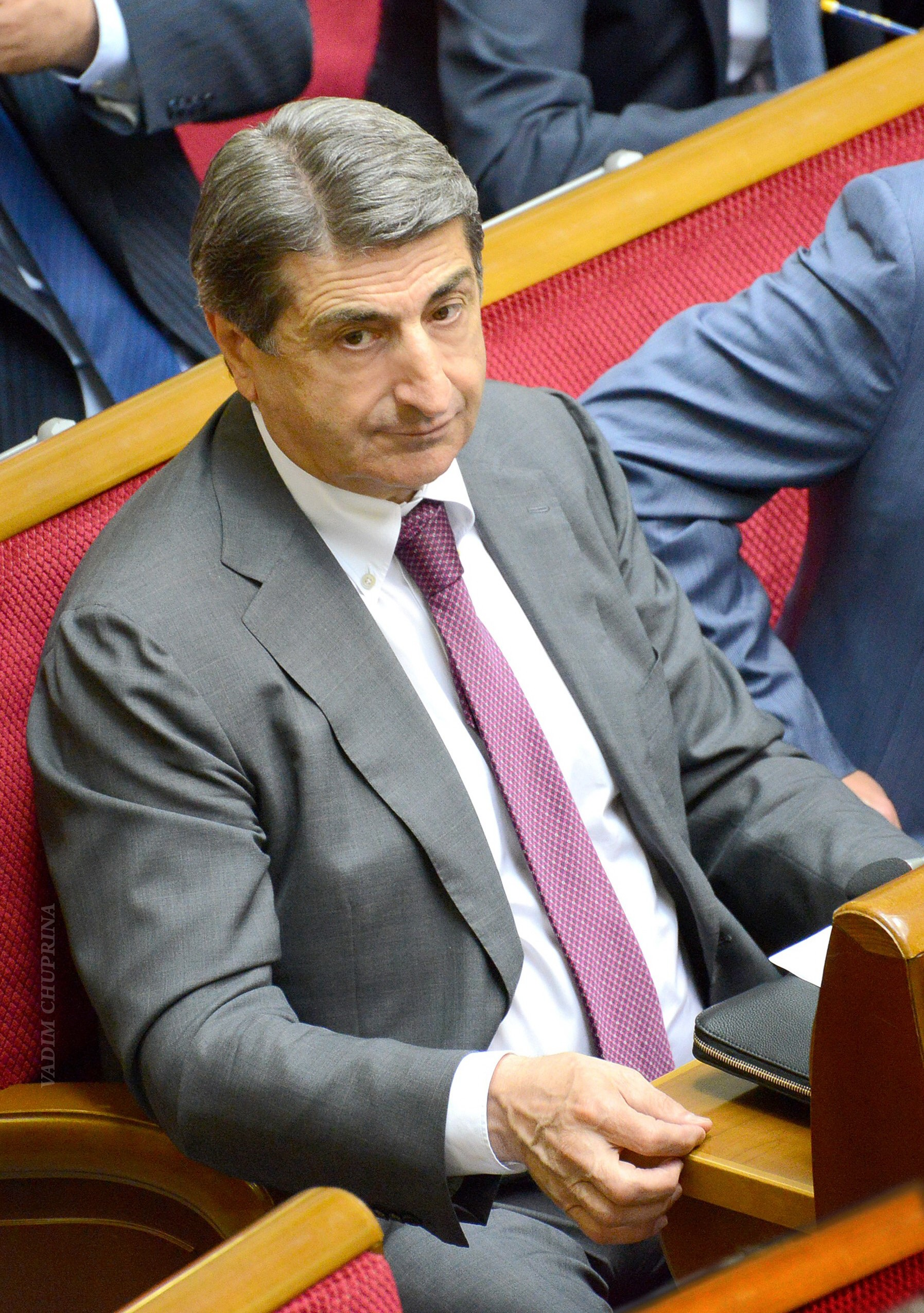 Ukrainian politicians VADIM CHUPRINA